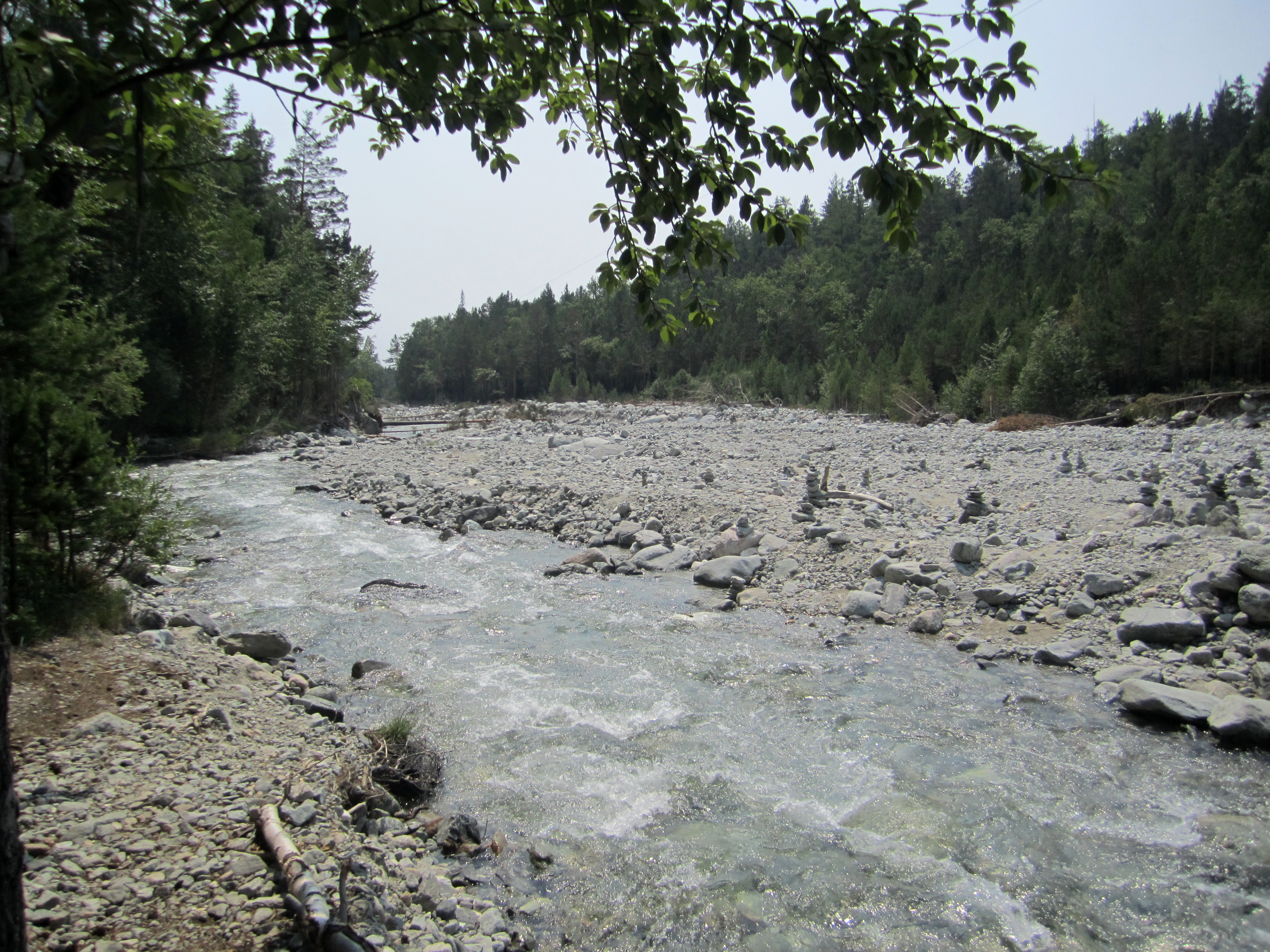 River Kyngarga above the Arshan village in July 2015. Remains of a 2014 debris flow are visible.